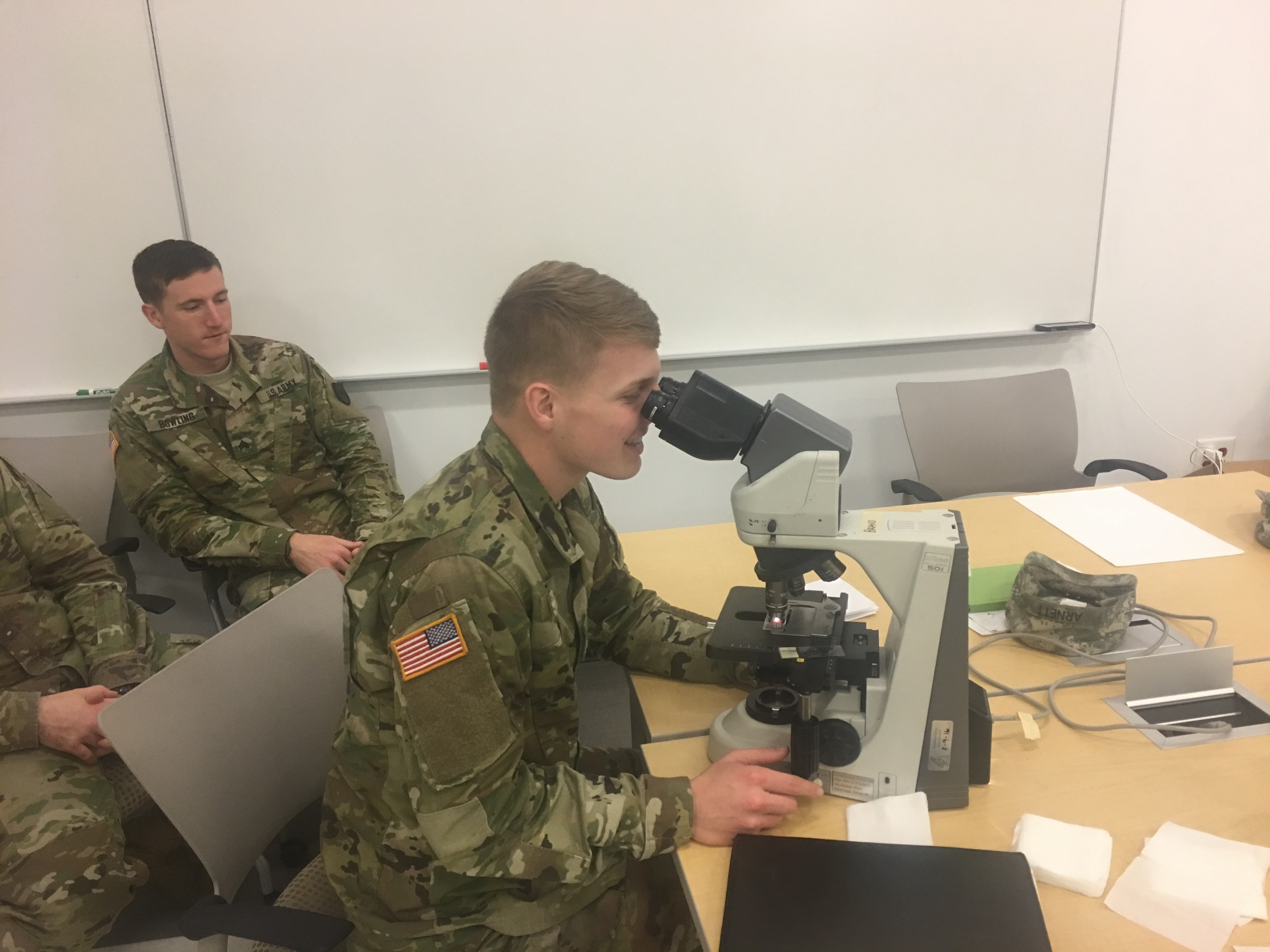 Pfc. Jace Pierce, a mechanic for the 1st Area Medical Laboratory, learns how to use a microscope to evaluate malaria samples during the 1st AML’s Operational Clinical Infectious Disease Course at the Mallette Training Facility in Aberdeen Proving Ground, Maryland from 10-12 Jan. More than 50 participants from 10 entities benefited from the locally-accredited three-day course and from instructors from various organizations. Unit: 20th CBRNE Command DVIDS Tags: leaders; Uniform; Malaria; Army; lecture; Aberdeen Proving Ground; 1st Area Medical Laboratory; Ebola; USAMRIID; Infectious Diseases; U.S. Army Medical Research Institute; lethal virus; Operational Clinical Infectious Disease; Mallette Training Facility; WRAIR; Professional Filler System